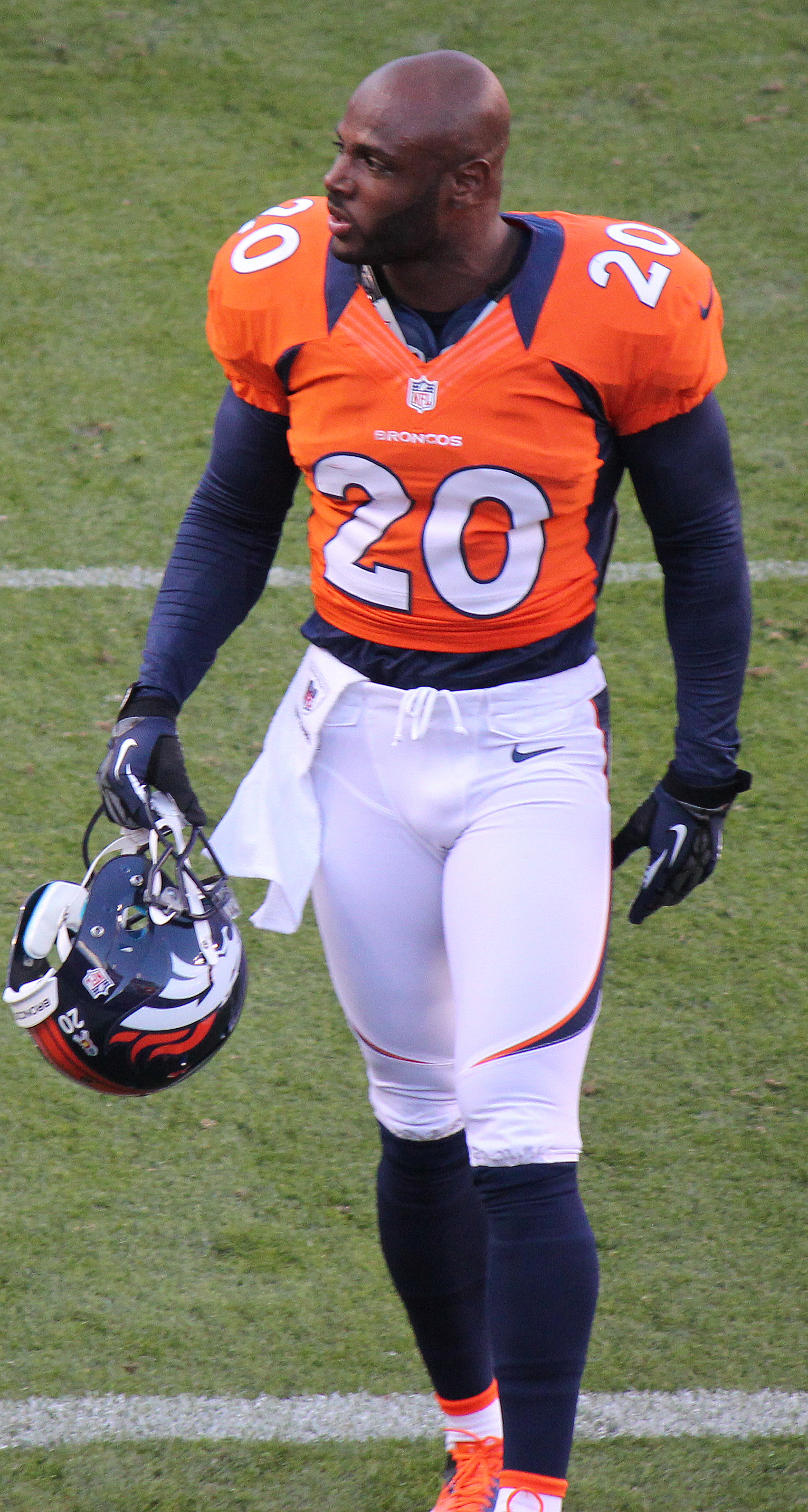 Mike Adams, a player on the National Football League.